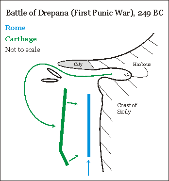 A sketch of the battle of Drepana drawn by Muriel somewhere in 2004.